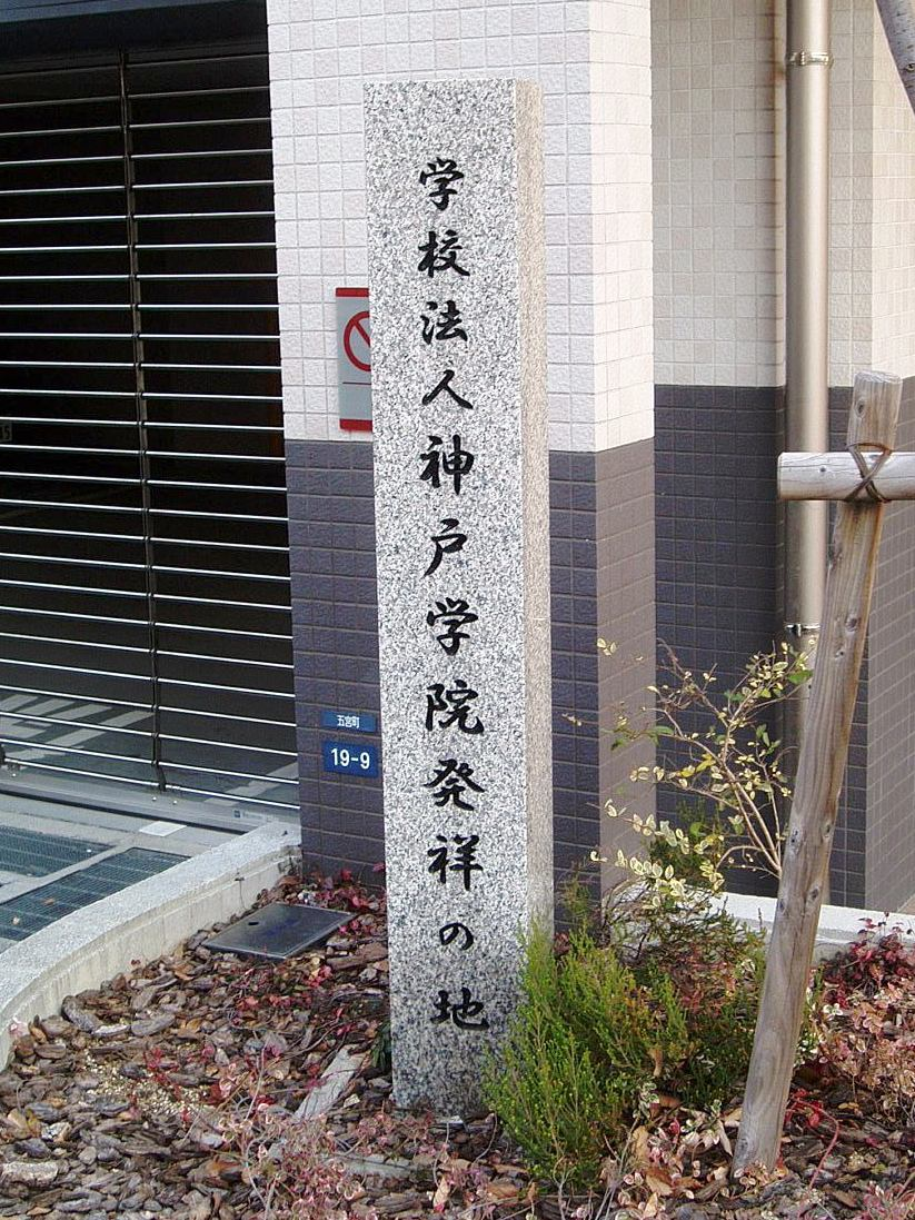 The memorial stone of the birthplace of Kobe Gakuin Educational Foundation, located in Gonomiya-cho, Hyogo-ku, Kobe, Hyogo, Japan.In 1912 Mori Sewing School for Girls, the origin of Kobe Gakuin University, was founded here.